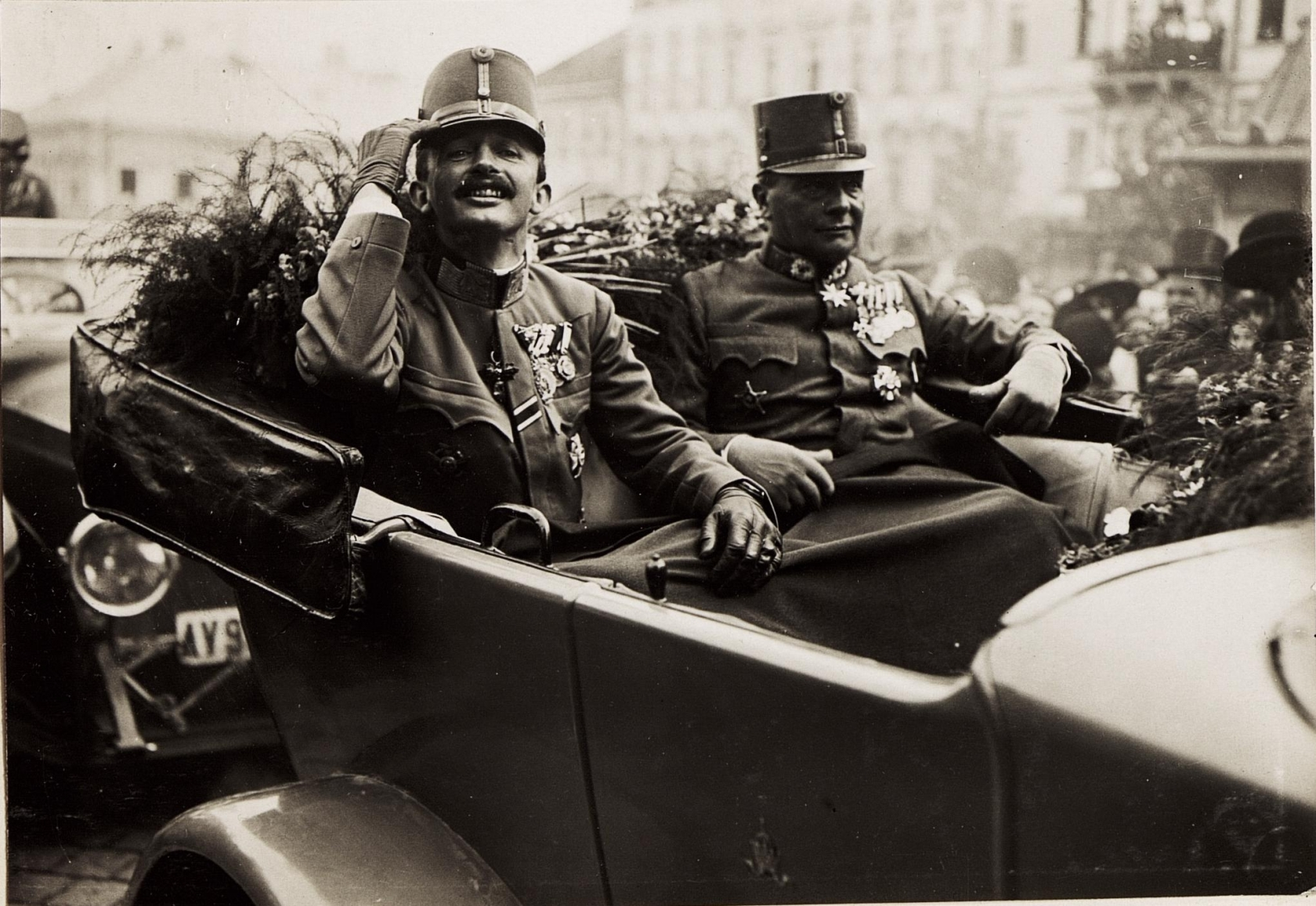 Einzug des Kaisers im Auto zusammen mit dem Armeekommandanten Baron Kövess.